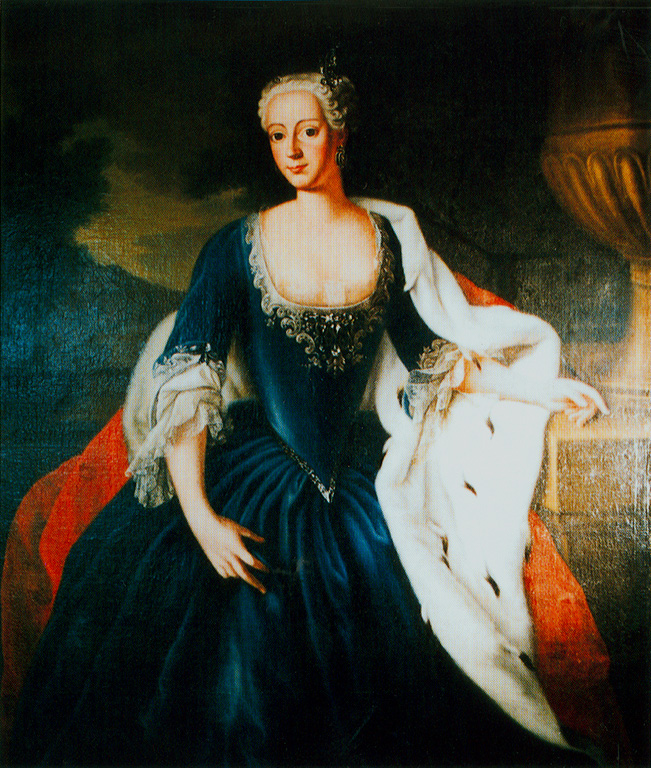 Portrait of Princess Friederike Luise of Prussia (1714-1784), Margravine of Brandenburg-Ansbach